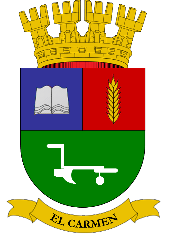 Coat of arms of El Carmen commune (Chile)